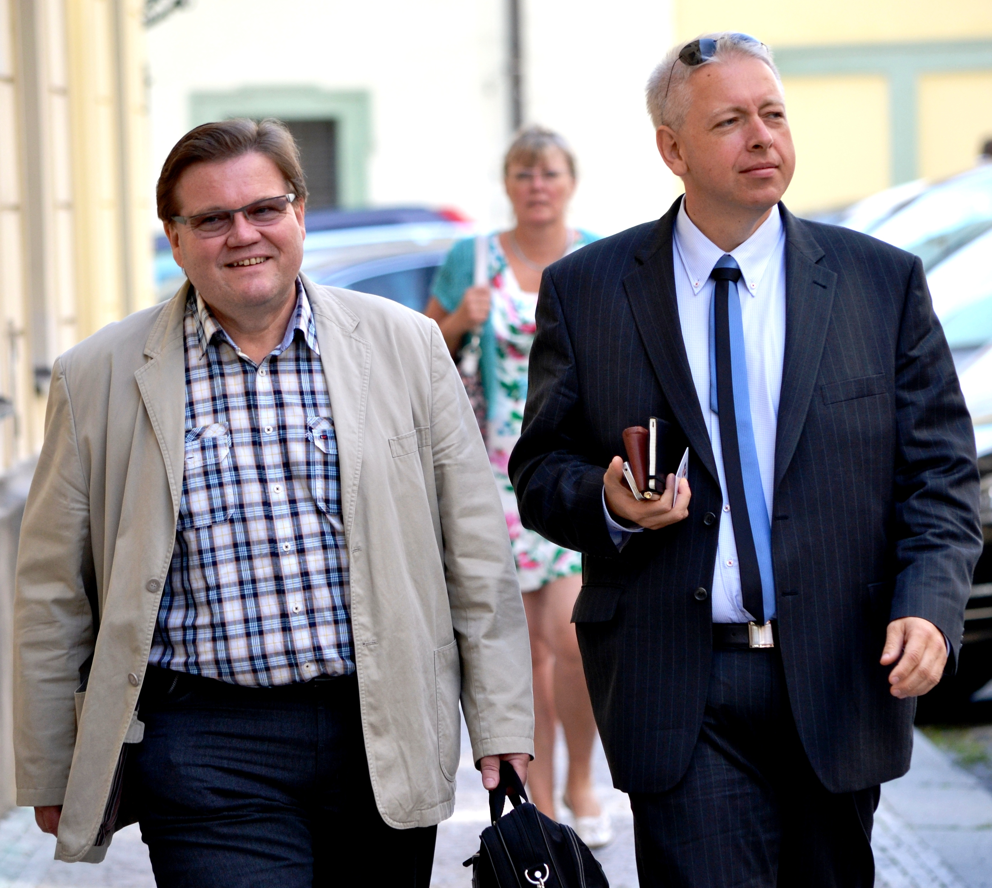 Zdeněk Škromach (left) and Milan Chovanec, Czech politicians